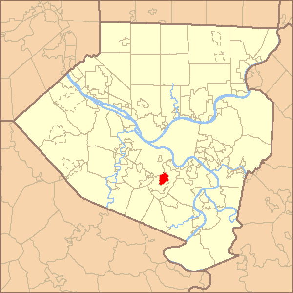 Map highlighting the municipality within Allegheny County, Pennsylvania.